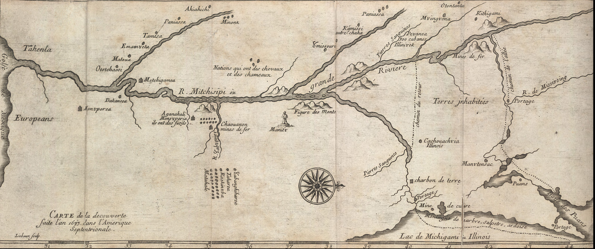 ca. 1681 map of the Mississippi River system, based on the 1673 expediton of Jacques Marquette and Louis Jolliet. This is one of many early maps made based on their descriptions of the interior of North America.